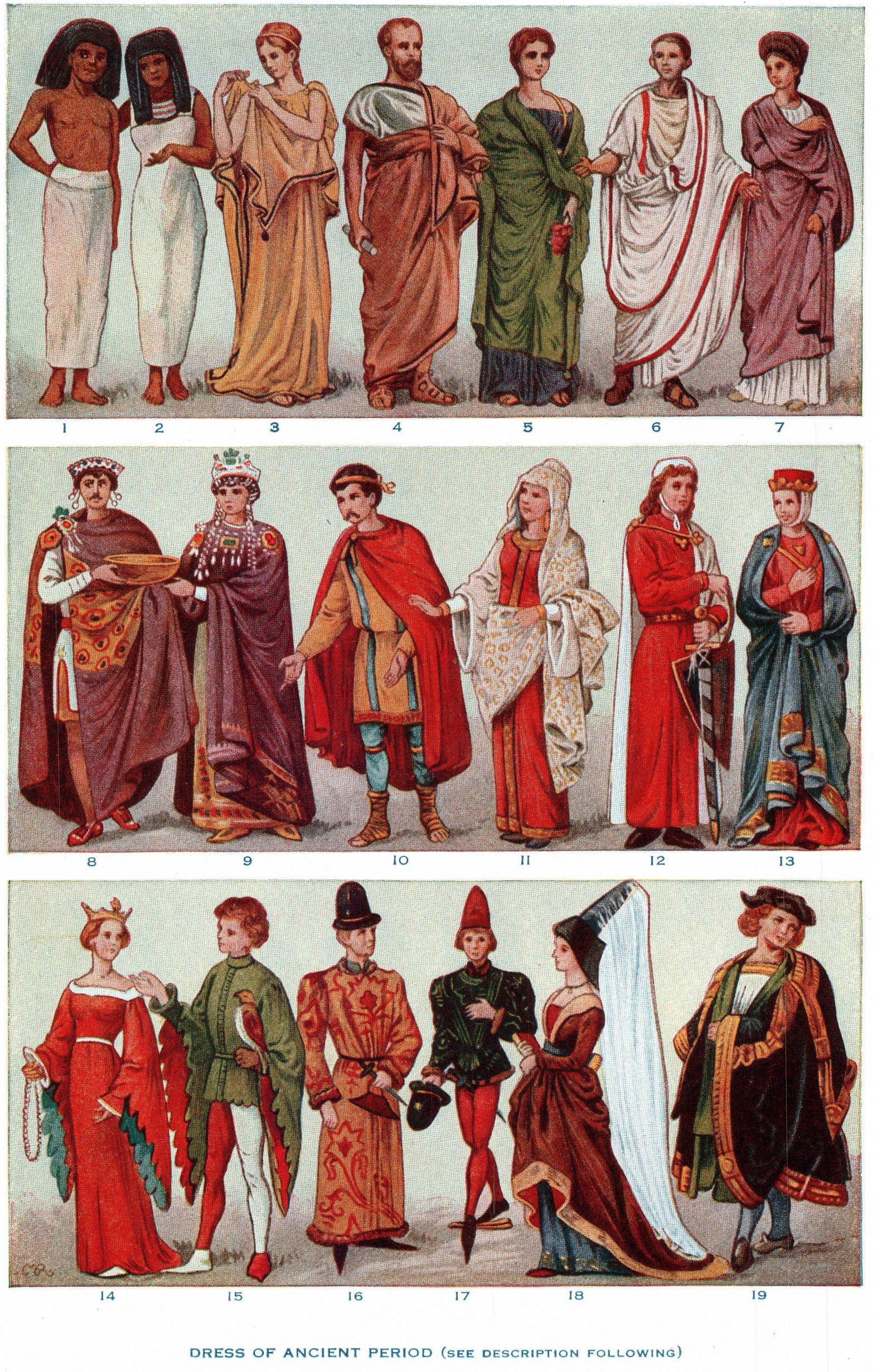 1. Egyptian man, 2. Egyptian woman, 3. Ancient greek woman wearing a peplos, 4. Greek man shown in "chiton", 5. Greek woman during Hellenistic period, 6. Noble roman in tunic, 7. Roman woman during the time of the roman empire, 8. Byzantine emperor Justinian, 9. Byzantine empress Theodora, 10. Frankish nobleman, 11. Frankish lady, 12. German nobleman 13th century, 13. German lady of nobility 13th century, 14. Titled young lady (1400), 15. Titled young man (1400), 16. Gentleman of Burgundy, 17. Gentleman of Burgundy, 18. Lady of Burgundy and 19. Nurnberg Citizen (1500).